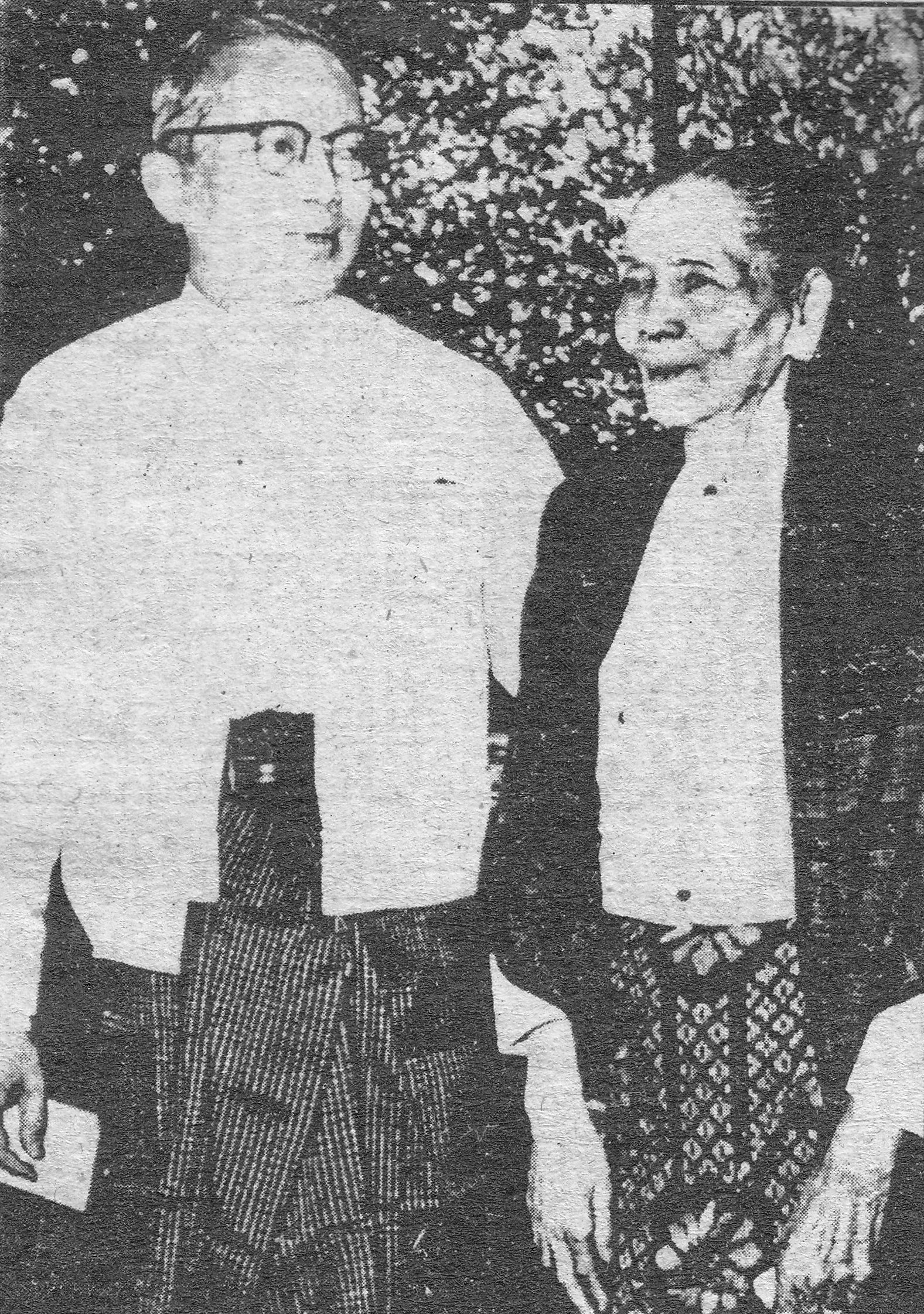 U Thant and his mother, Nan Thaung မြန်မာဘာသာ: ဦးသန့်နှင့် မိခင် ဒေါ်နန်းသောင်း (၂၇-၂-၆၅) နေ့က ရိုက်ကူးထားသည်